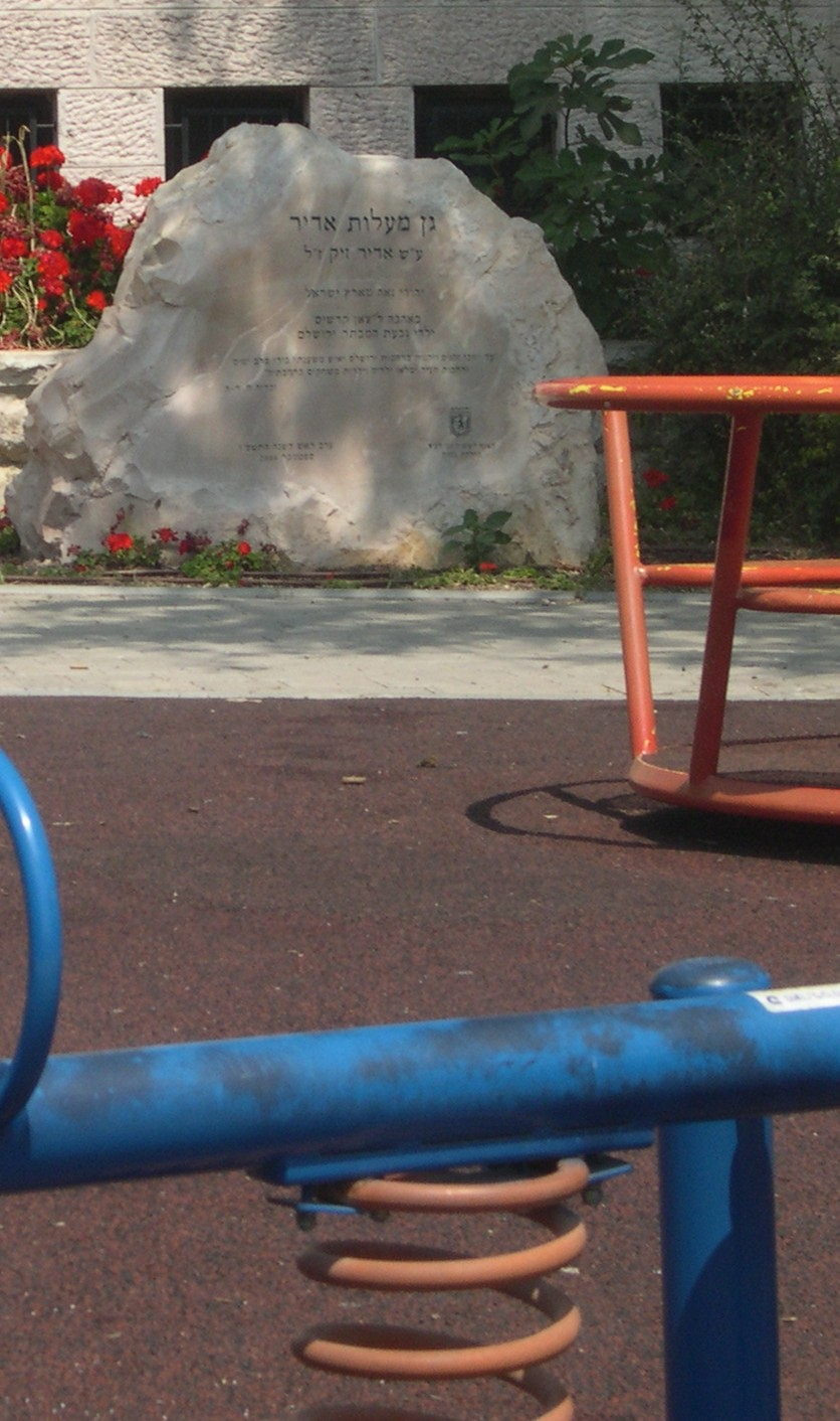 Adir Zik Mamorial